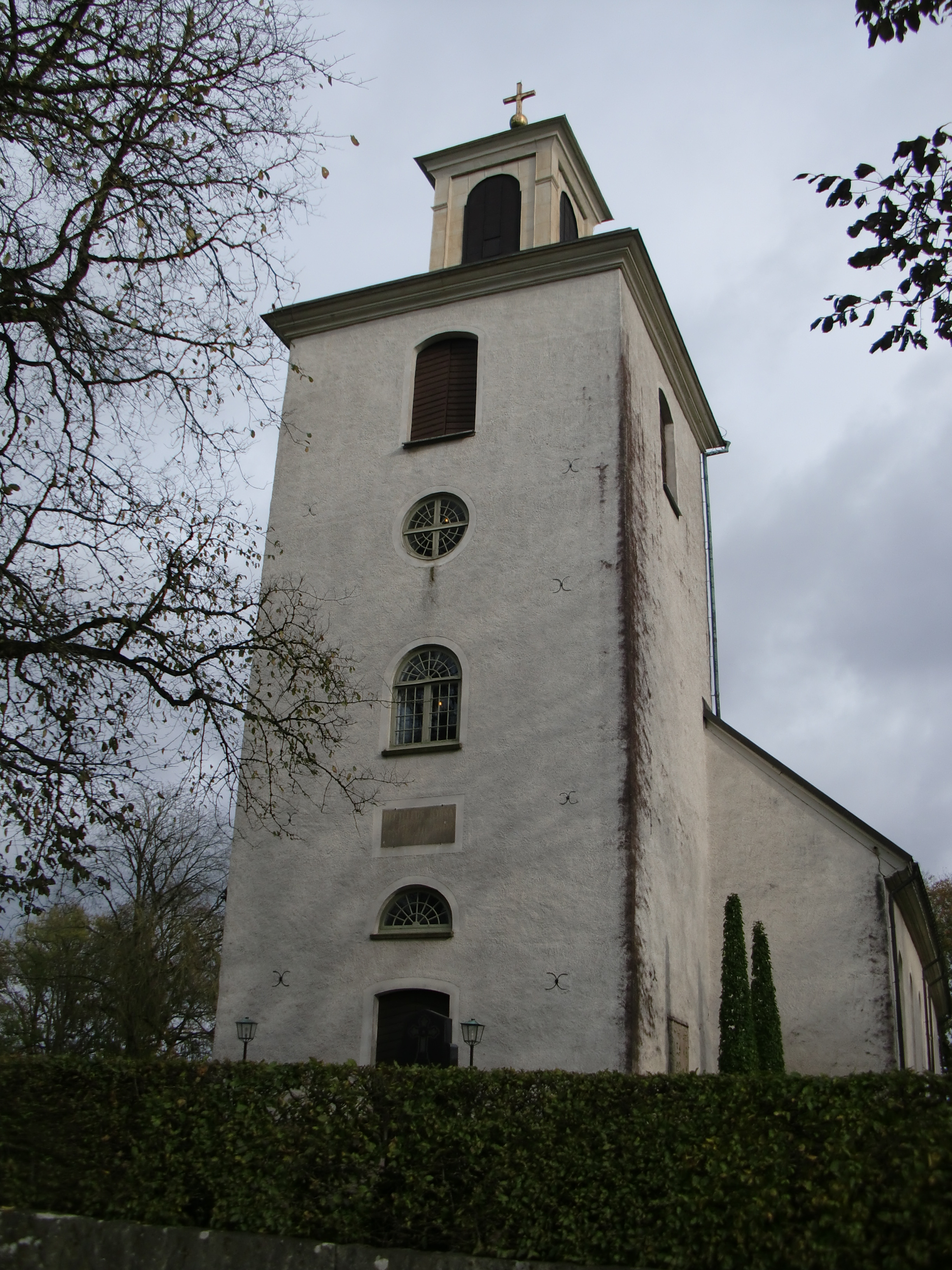 Front of Reftele church